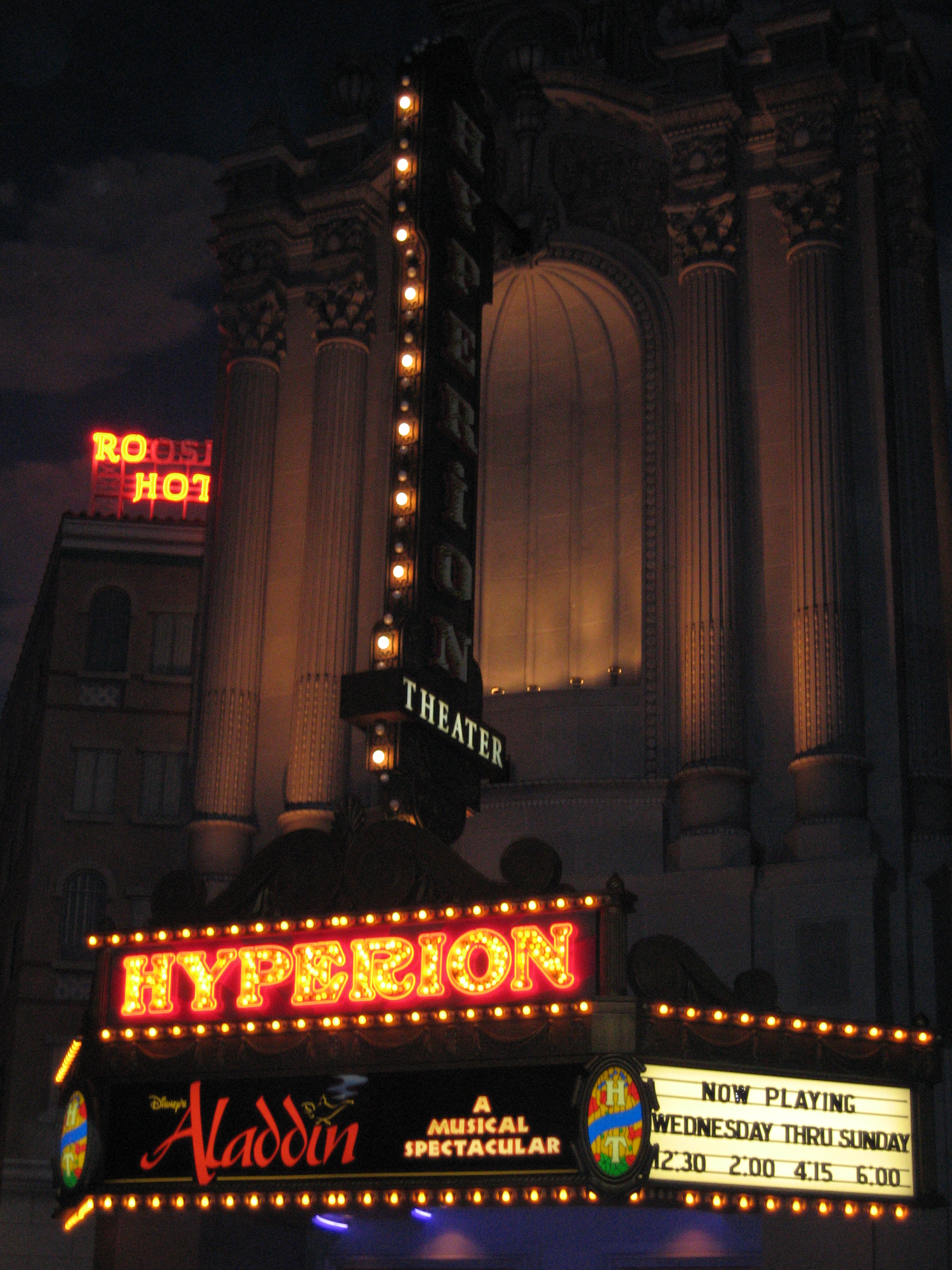 The Hyperion Theater in the Hollywood Pictures Backlot area of Disney California Adventure with Aladdin the musical playing.